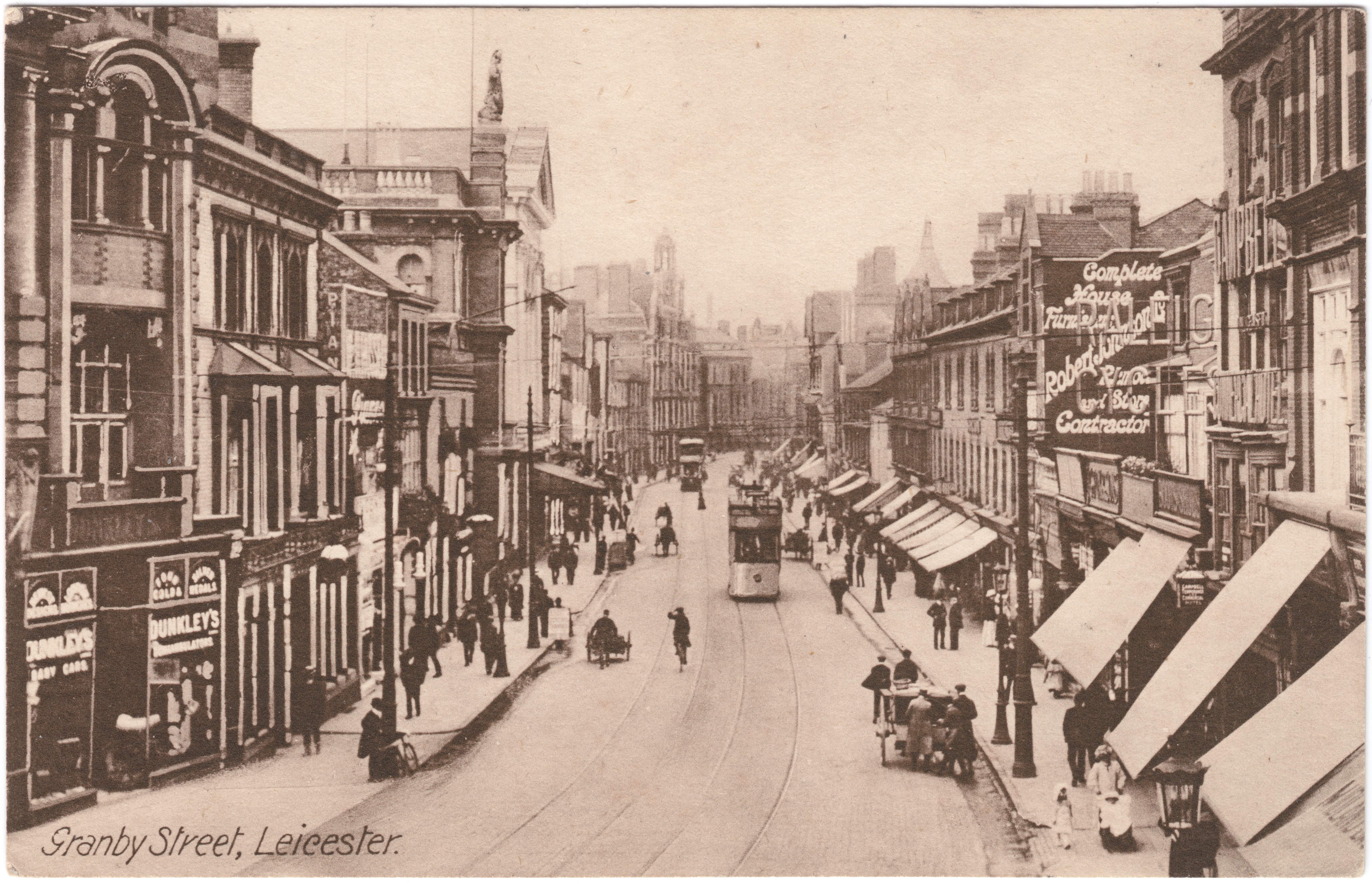 Granby Street, Leicester, in or before 1917.